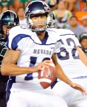 Colin Kaepernick prepares to pass the ball in an away game against Hawaii Rainbow Warriors, October 16, 2010. Cropped from original.